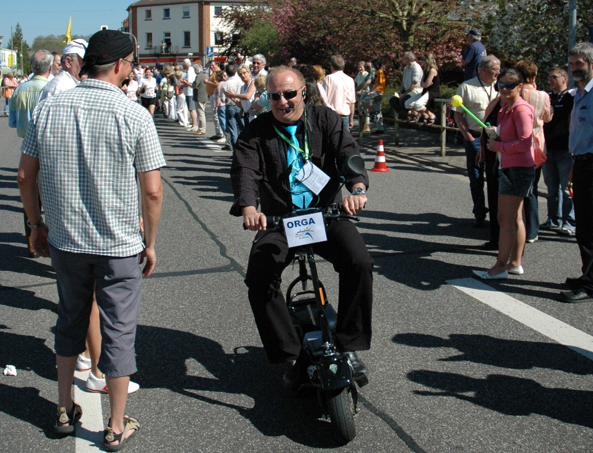 Klaus Bouillon, Mayor of St. Wendel, Germany during the first city marathon in 2007